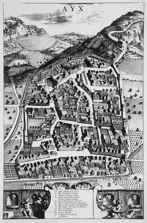 Extrait theatrum sabaudiae planche aix-les-Bains